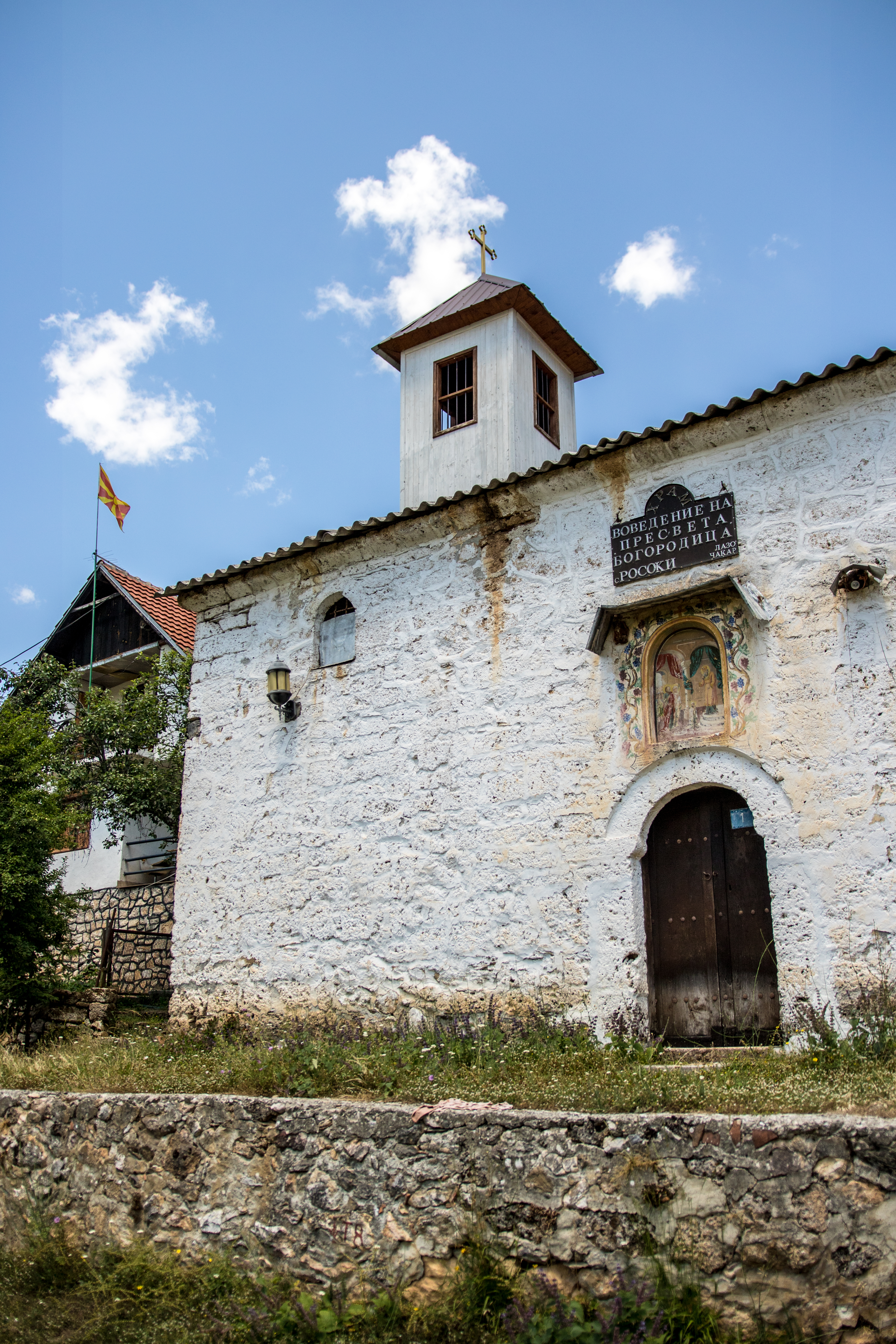 Church in the village Rosoki